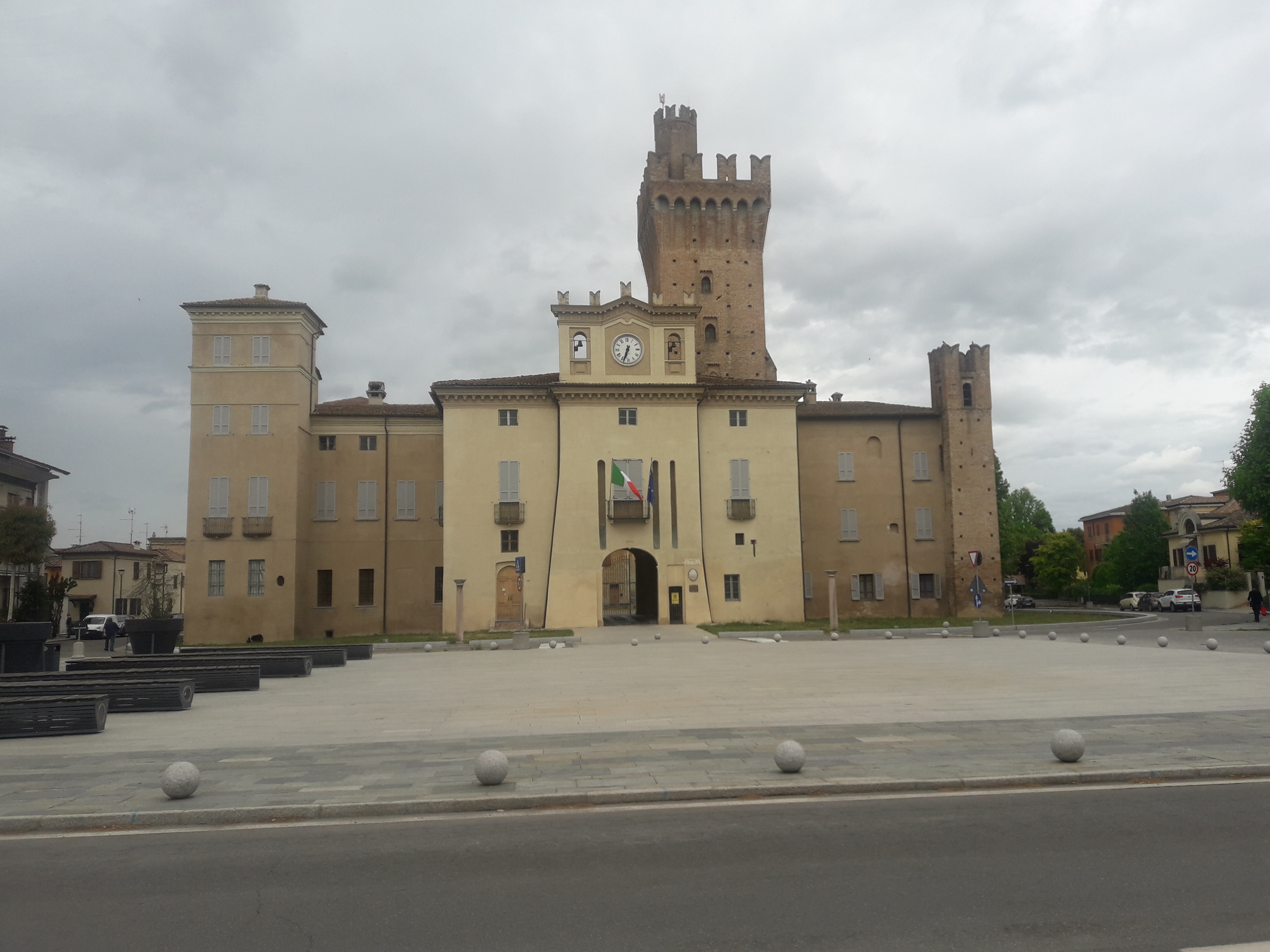 Castle of Rocca Mandelli, town hall of the municipality of Caorso, Piacenza, Italy